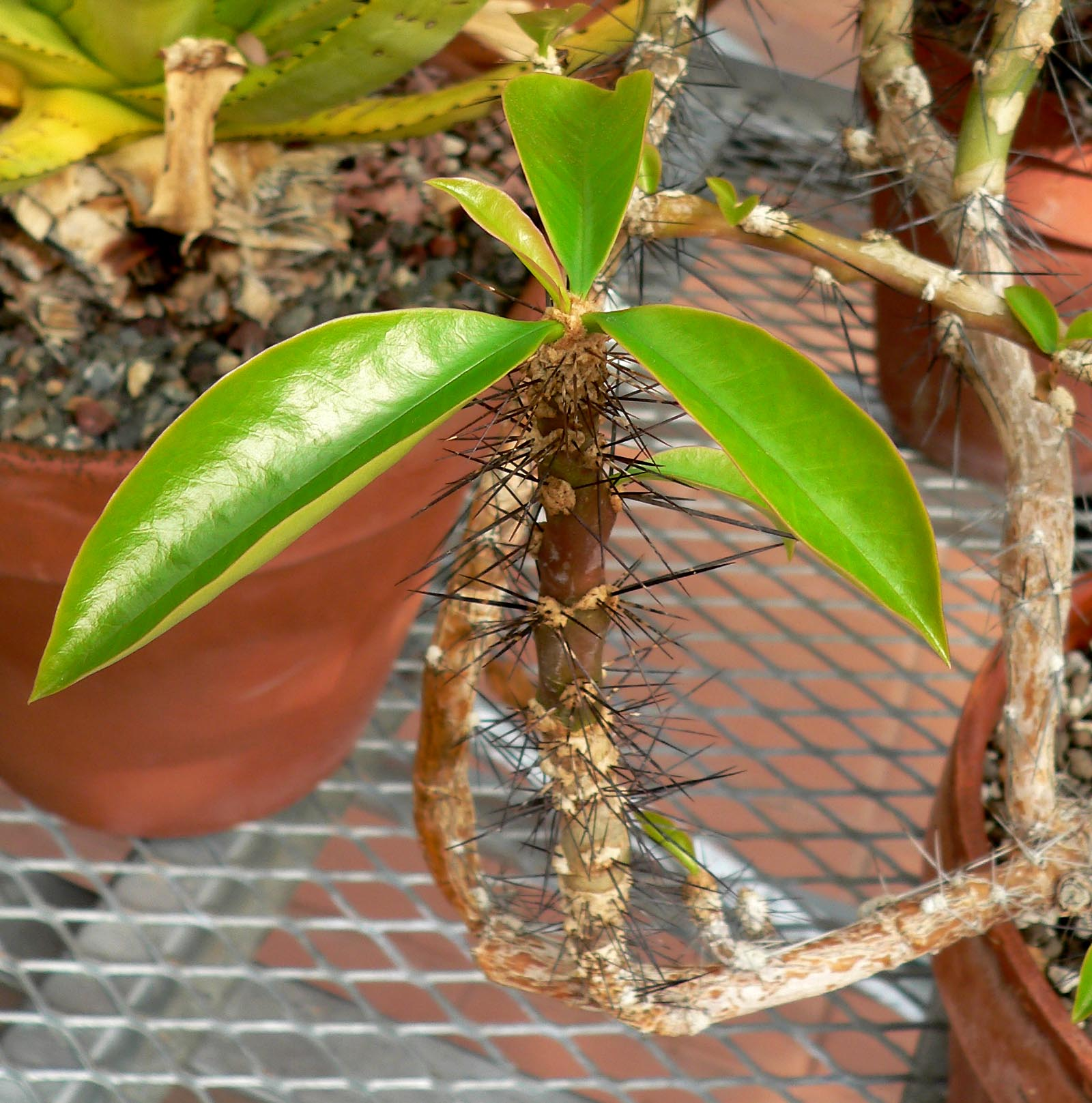 Photo of Pereskia tampicana at the University of California Botanical Garden